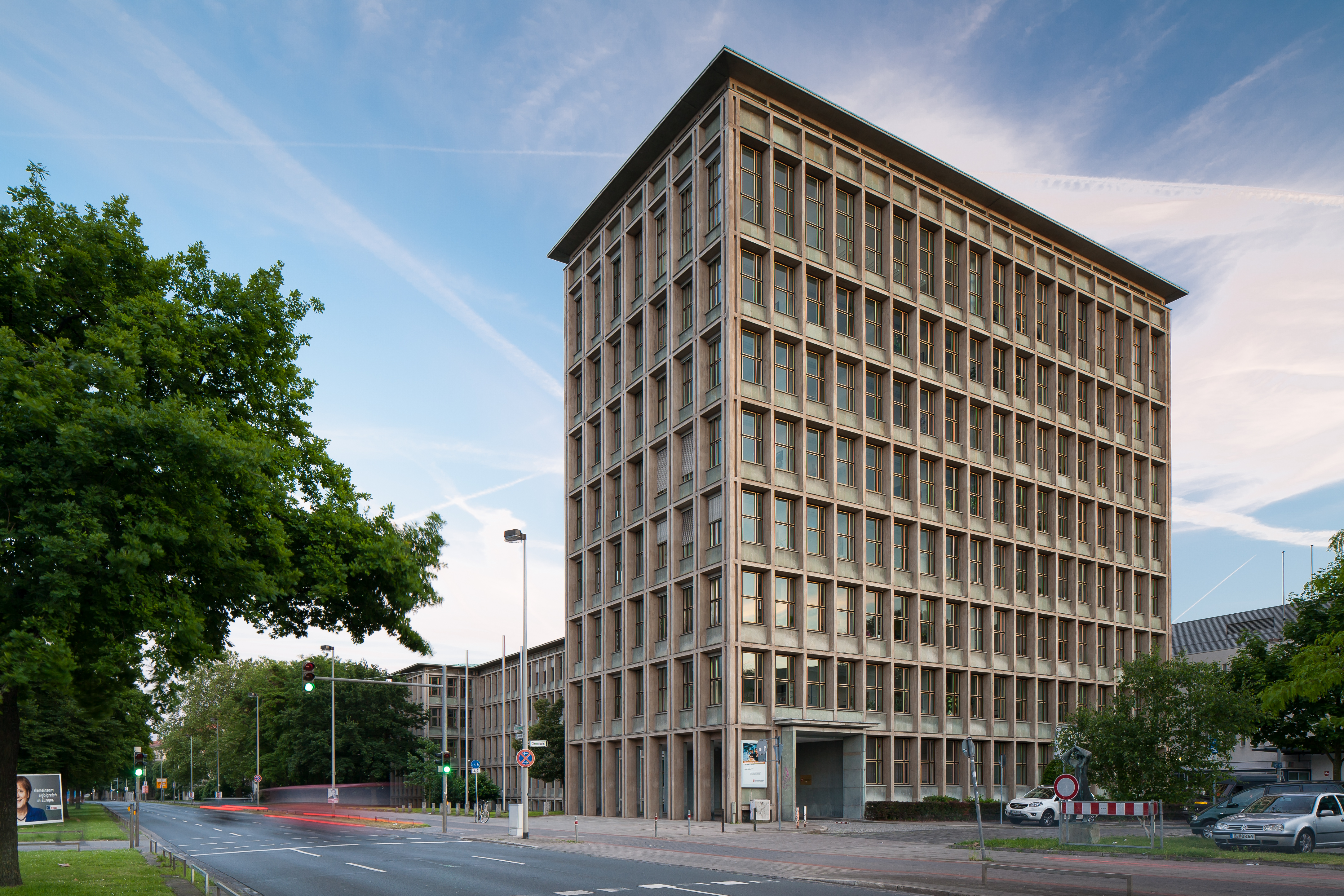 Former administration building of Preussag company, now used by Lower Saxony's ministery for science and culture. The house is located at Leibnizufer street in Hanover, Germany.